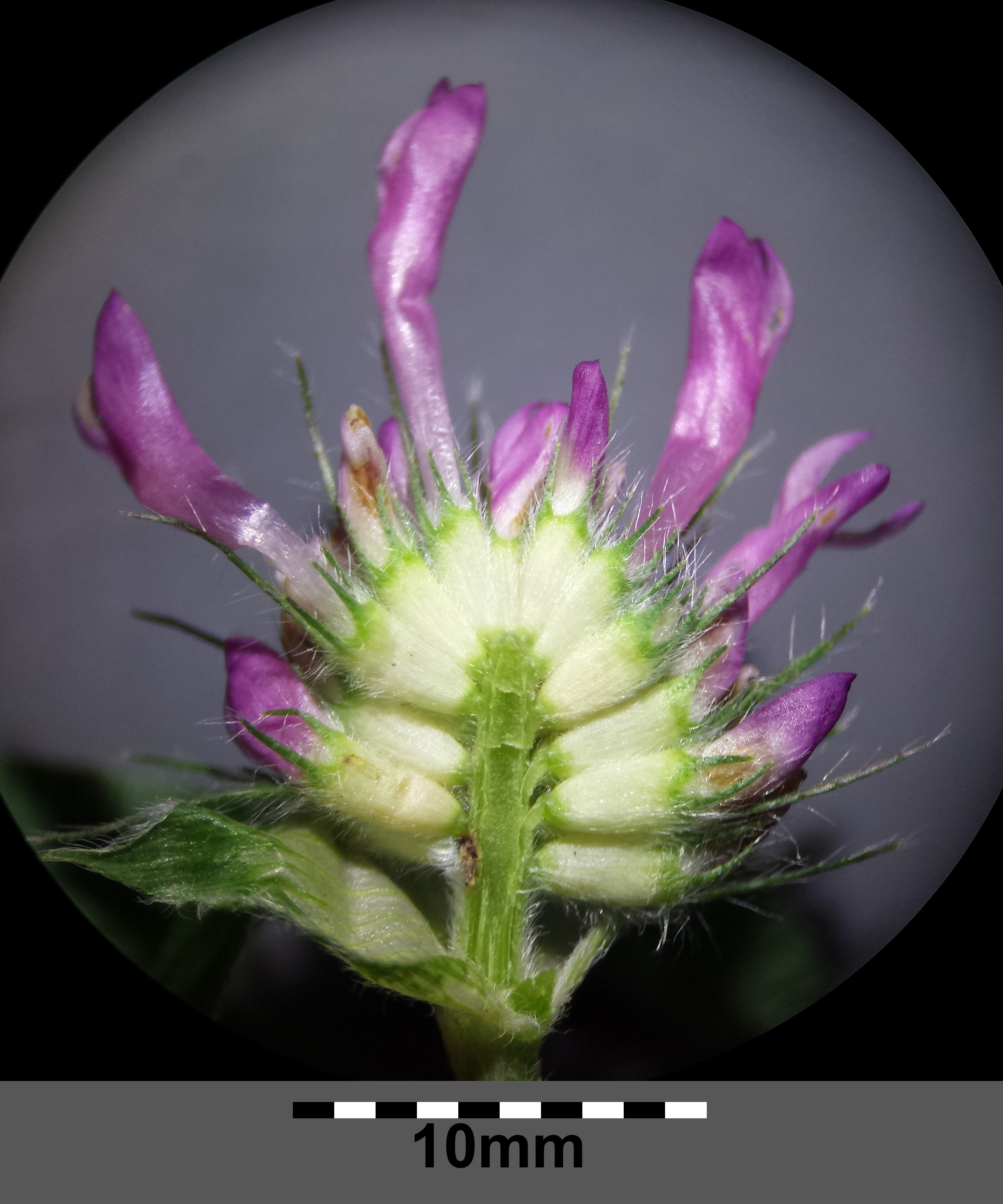 Inflorescence, front flowers removed Taxonym: Trifolium alpestre ss Fischer et al. EfÖLS 2008 ISBN 978-3-85474-187-9 Location: Umlaufberg near Altenburg, district Horn, Lower Austria - ca. 350 m a.s.l. Habitat: Carpinion betuli